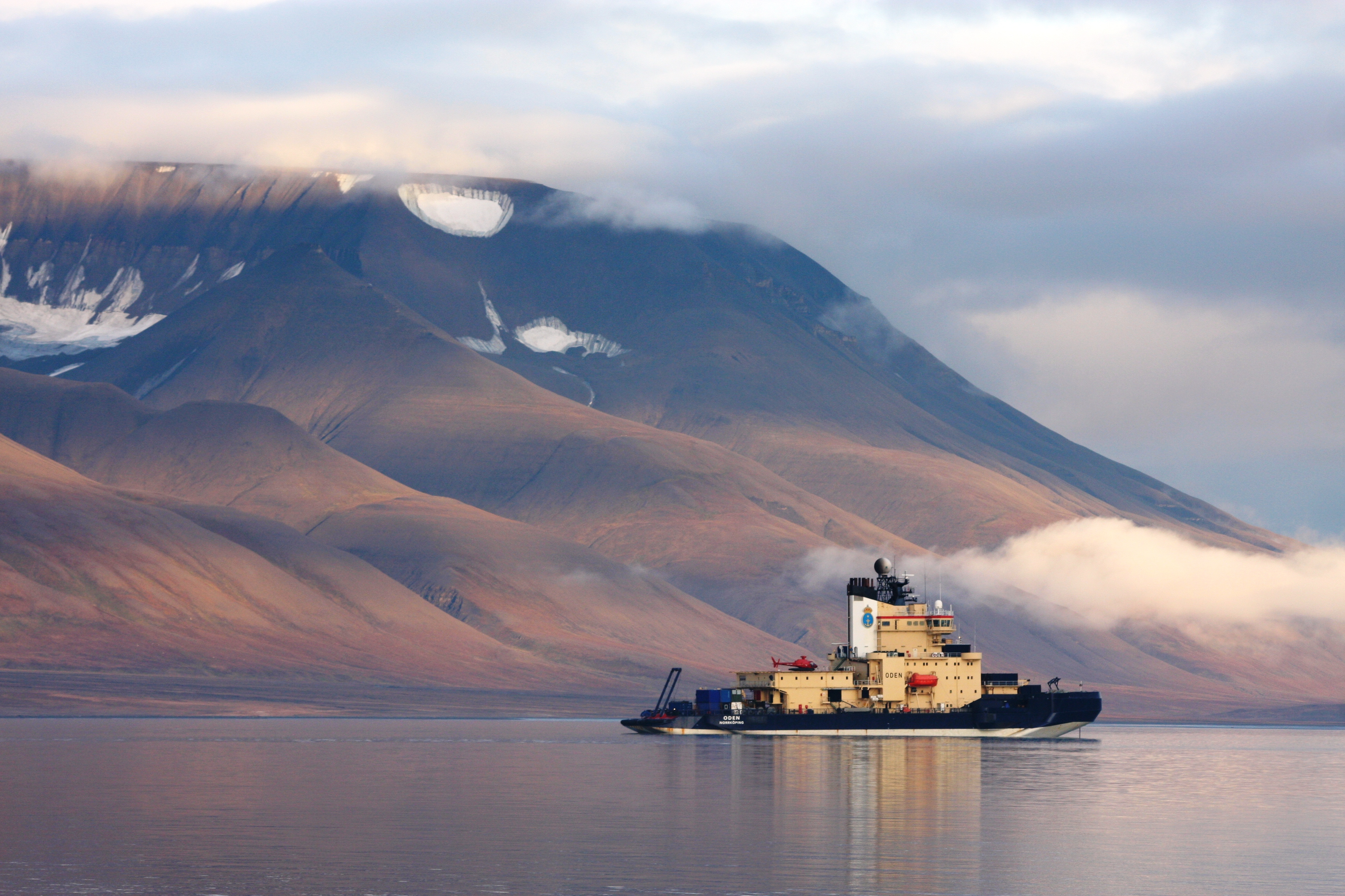 Icebreaker Oden (Sweden) in Advent Fiord, by Longyearbyen, Svalbard.